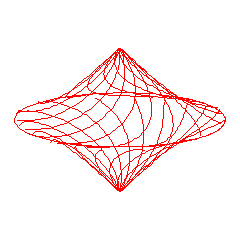 Hawking and Ellis picture of behavior of light emitted from an event on the symmetry axis of the Goedel lambdadust solution: light spirals outwards, forms a circular cusp (a null curve, but not a null geodesic), then spirals back inwards and reconverges at a later event on the symmetry axis.